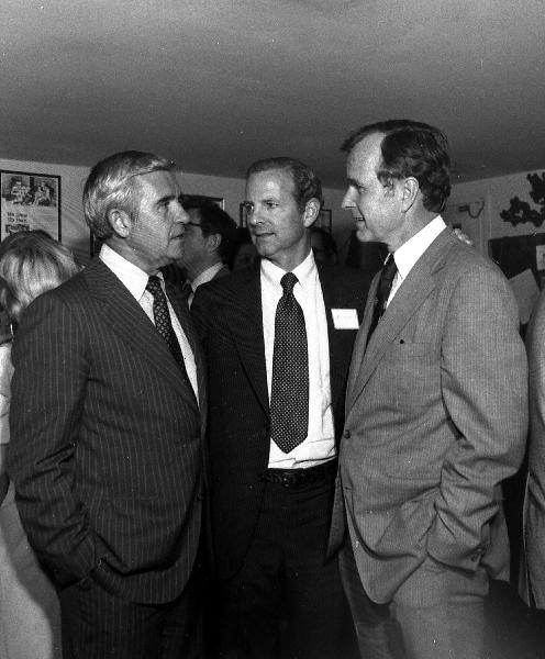 George Bush and James Baker visit with US Senator Paul Laxalt (R-Nev) during the 1980 campaign. 1980